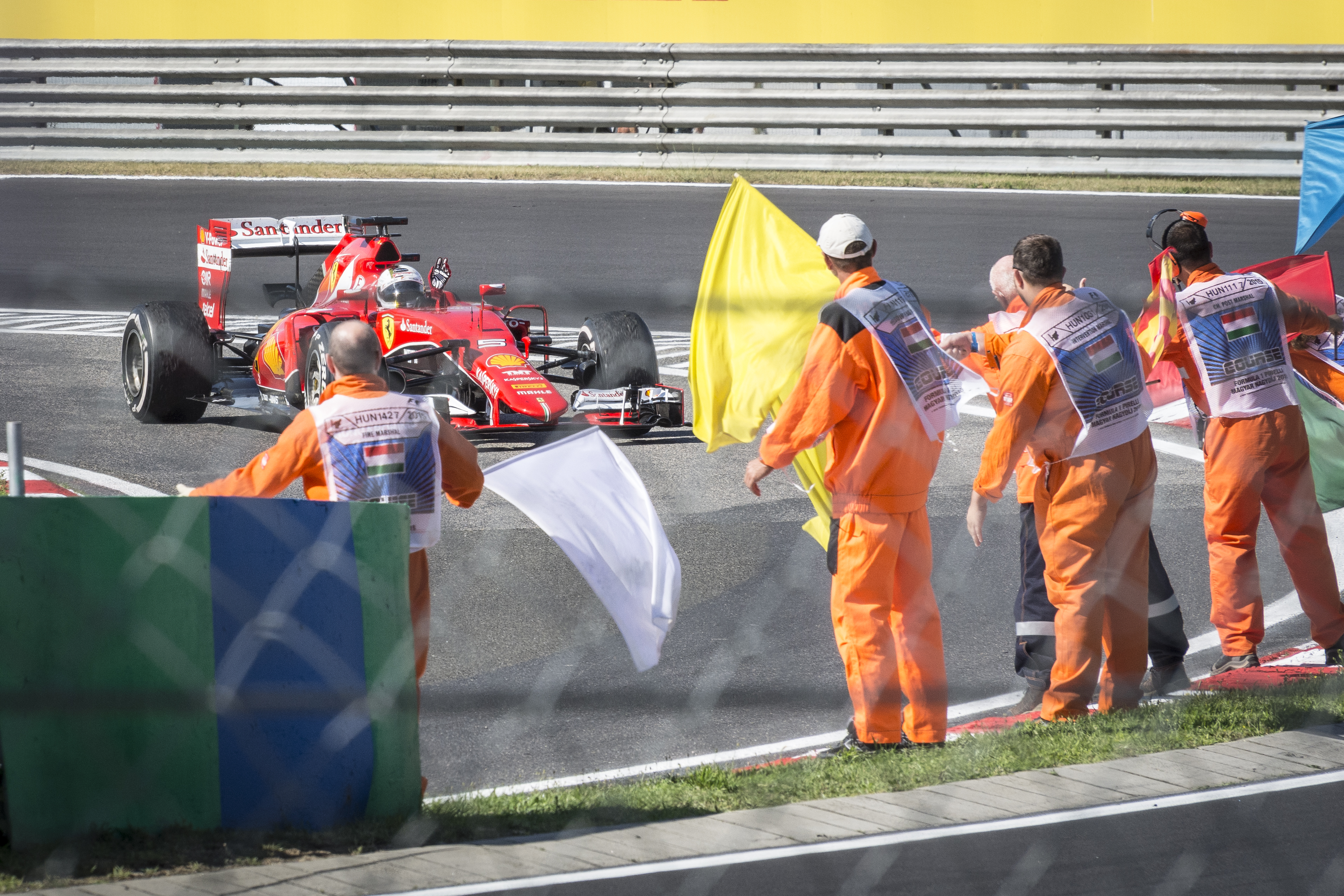 Sebastian Vettel celebrating victory at the 2015 Hungarian Grand Prix